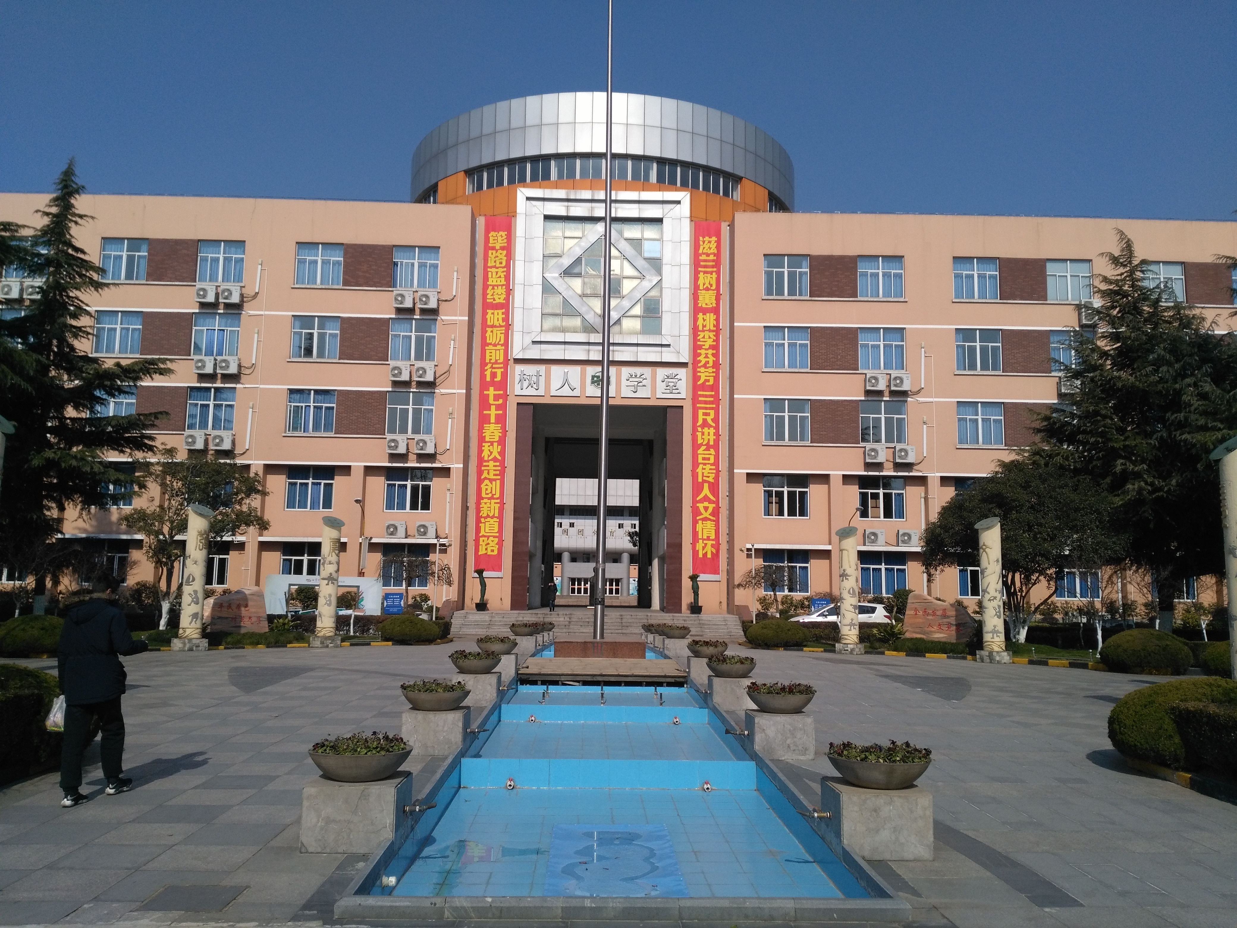 Bldg 1 of Shanghai Qibao High School